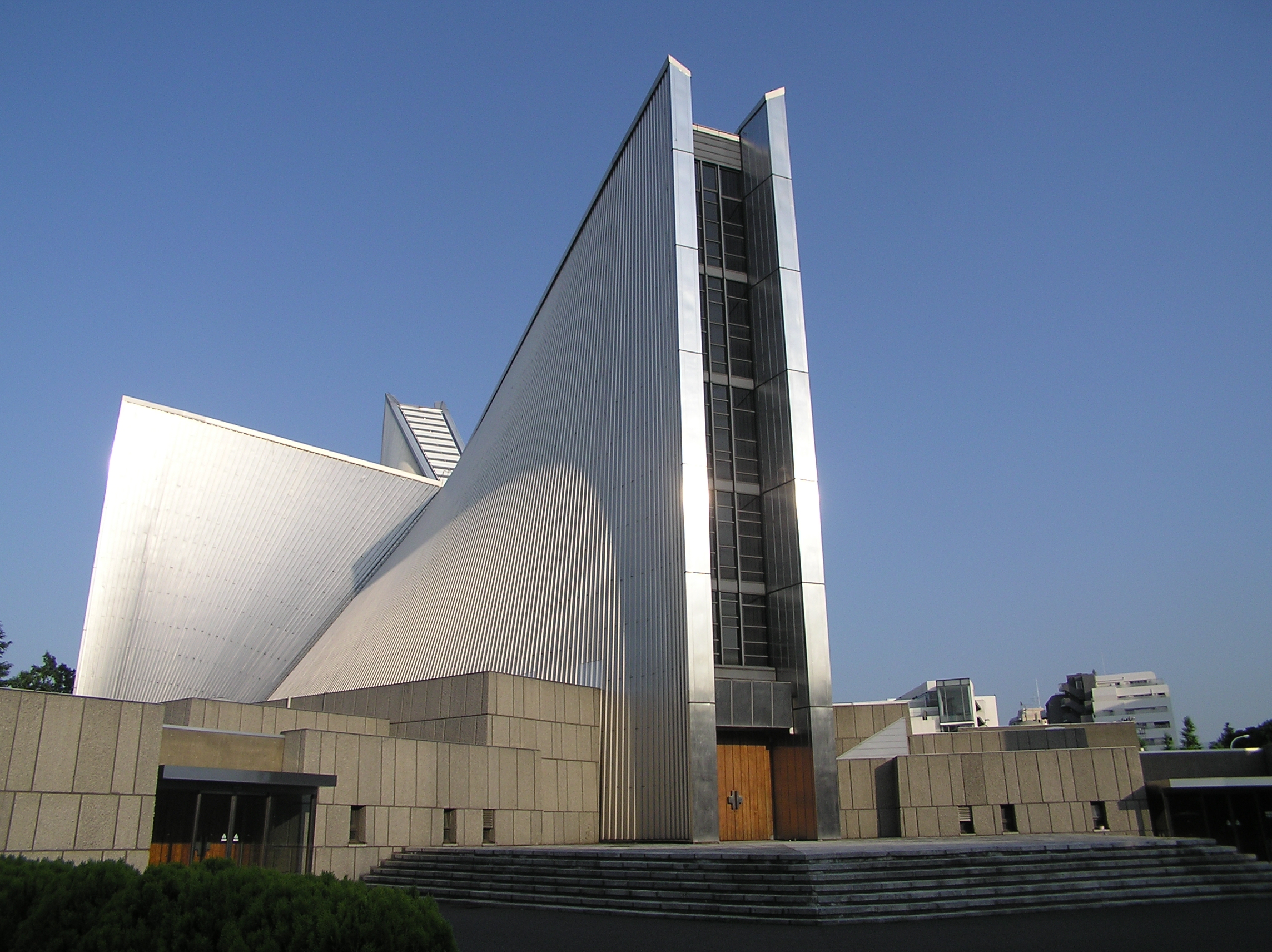 Tokyo Cathedrale(St. Mary's Cathedral). A work by Tange Kenzo.